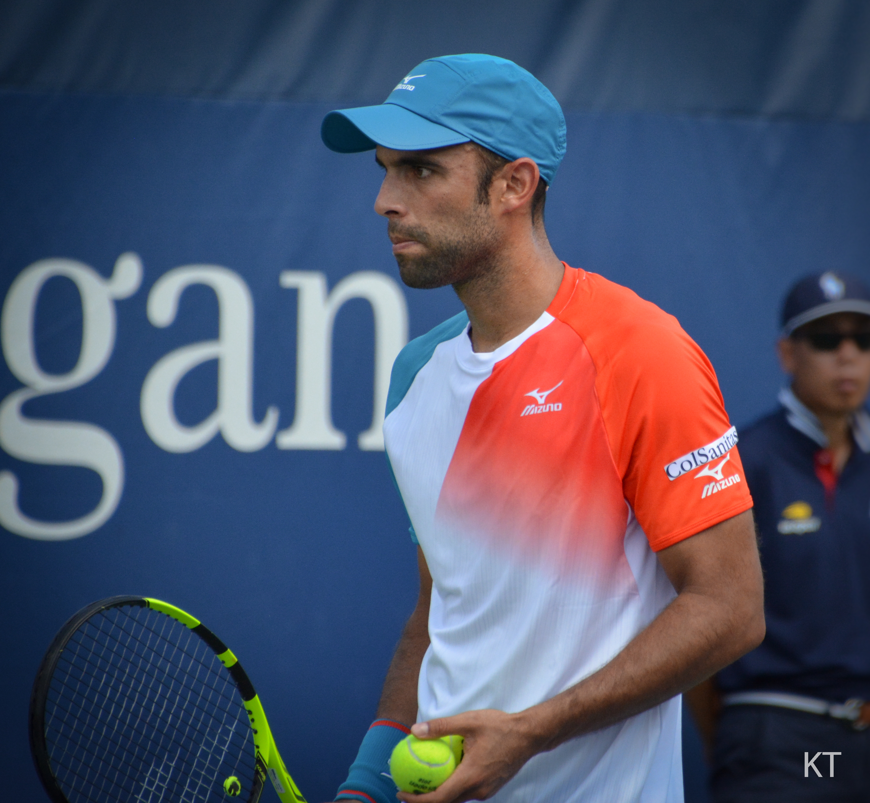 Day 4 of US Open 2018.